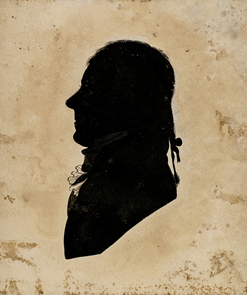 Alexander Hamilton by William Bache, ca. 1800, black ink with touches of white gouache on ivory paper, New-York Historical Society